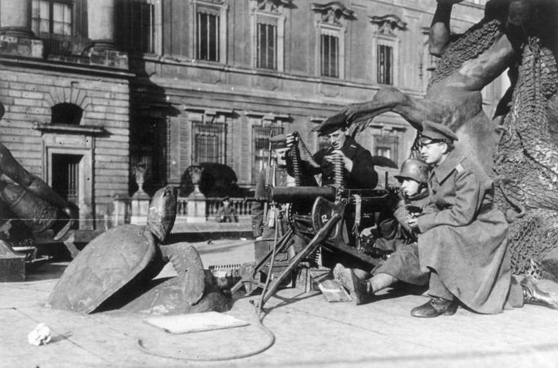 Information added by Wikimedia users.